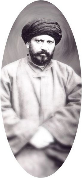 Sayyid Jamāl al-Dīn al-Afghānī also known as Sayyid Muhammad Ibn Safdar al-Husayn